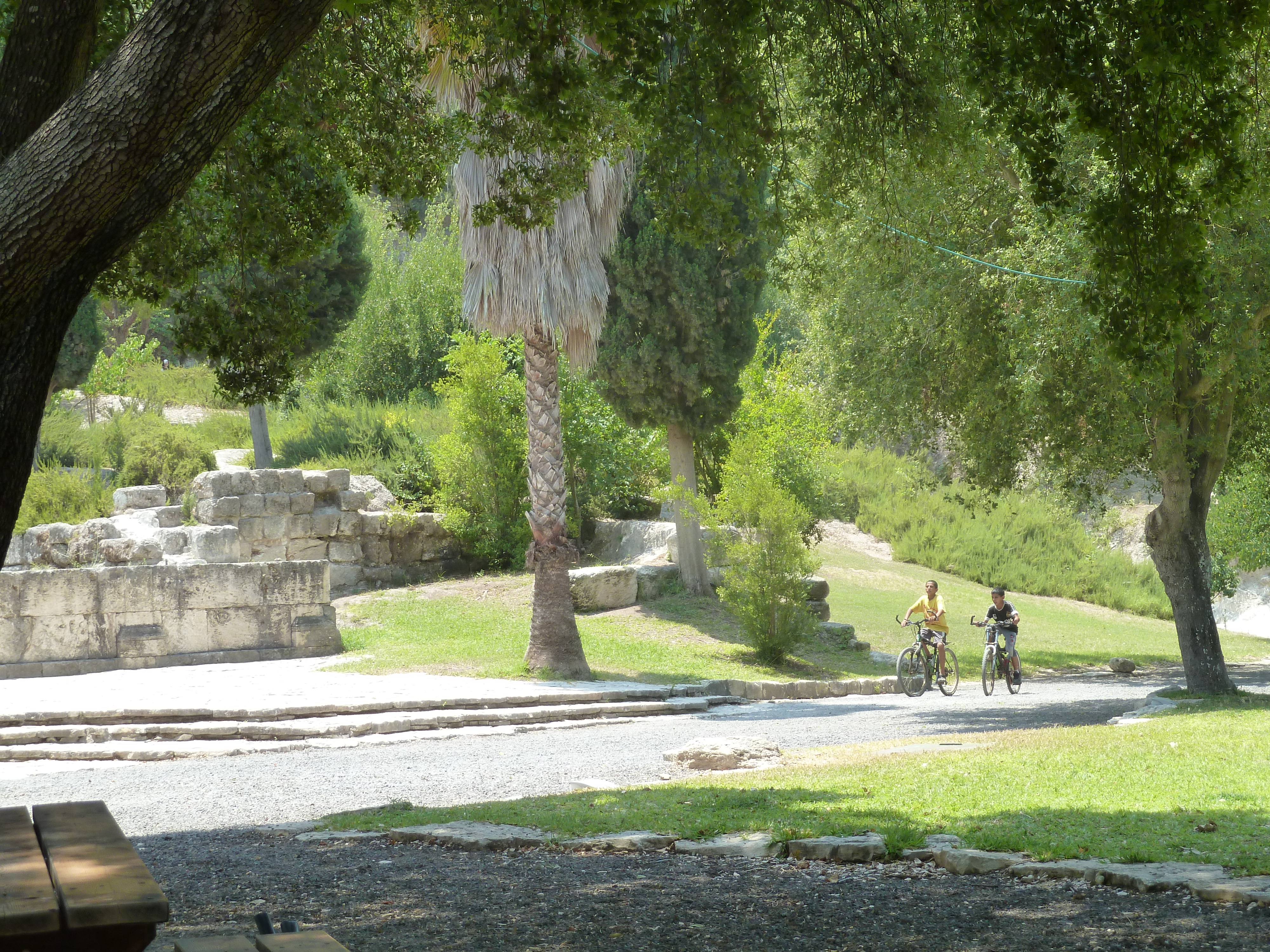 Bet Shearim